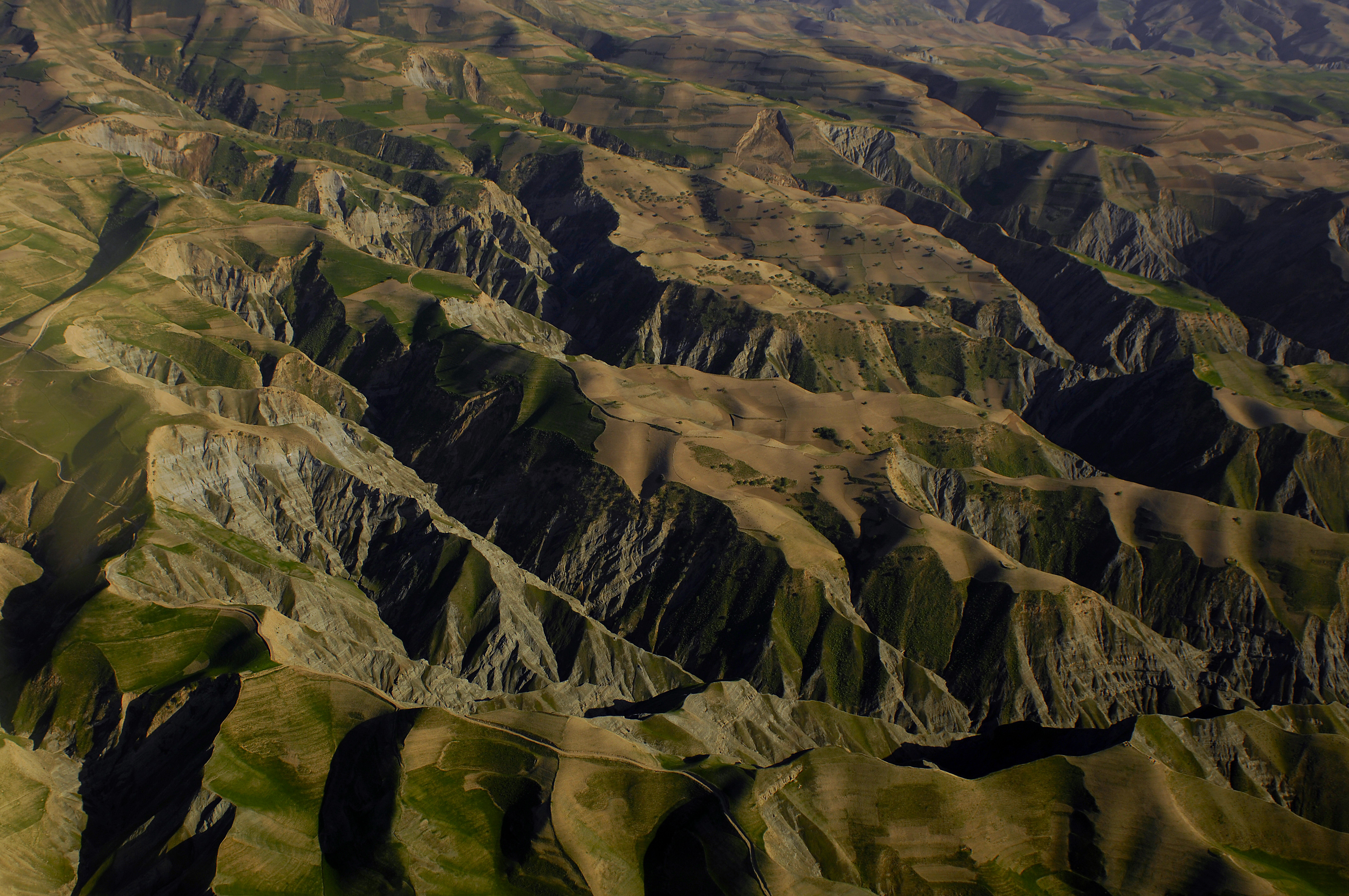 An aerial view of mountains in Afghanistan taken from a U.S. Air Force C-130 Hercules transport aircraft April 23, 2008, during a cargo mission launched from Bagram Air Base, Afghanistan, in support of Operation Enduring Freedom. پښتو: په افغانستان کې د غرونو کې له يوې متحده ايالاتو د هوايي ځواک د C-130 ډوله ترانسپورتي الوتکې د اپریل 23، 2008، د یوه باروړونکې ماموریت کې د تلپاتې ازادۍ د عملياتو د ملاتړ څخه د بګرام هوايي ډګر، افغانستان، پيل په جريان کې د يو هوايي محتویات.